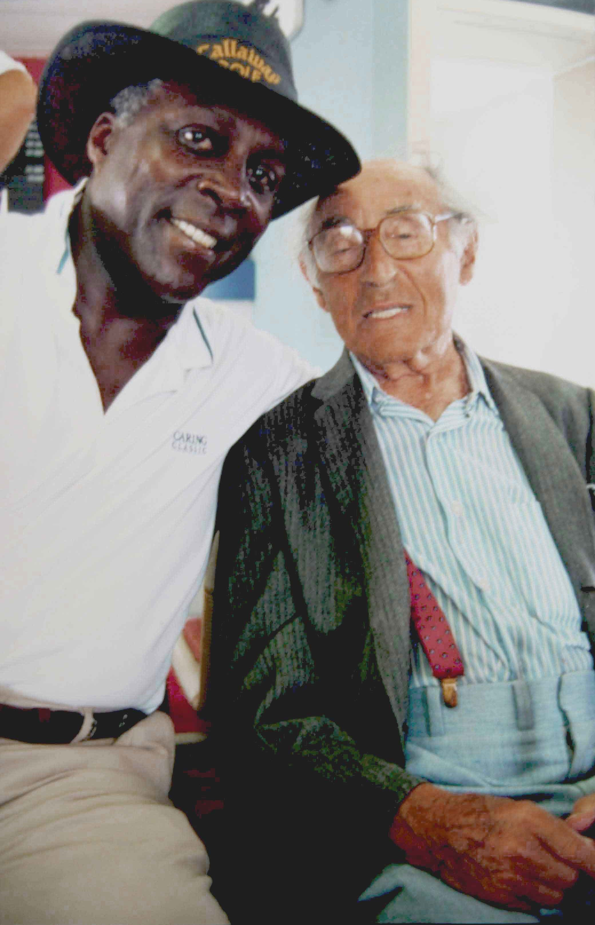 Vernon Jordan and Alfred Eisenstaedt sharing time on Martha's Vineyard at a social gathering. Eisenstaedt commended Jordan for his efforts in assisting President Clinton. At the time of this photograph, Jordan was visiting with President Clinton. Besides talking about matters of consequence, such as the Monica Lewinsky affair, with which Jordan became legally involved — Vernon Jordan also attended various island functions with President Clinton. President Clinton and Vernon Jordan often played golf together. While Jordan was on the Vineyard, he and the President shared a few rounds at a couple of island courses. This fact was not lost to Eisenstaedt, who, with a smile, asked Jordan, "When you play golf with the President, do you let him win?" Eisie's question elicited a boisterous laugh from Jordan as well as everyone who was within hearing distance.